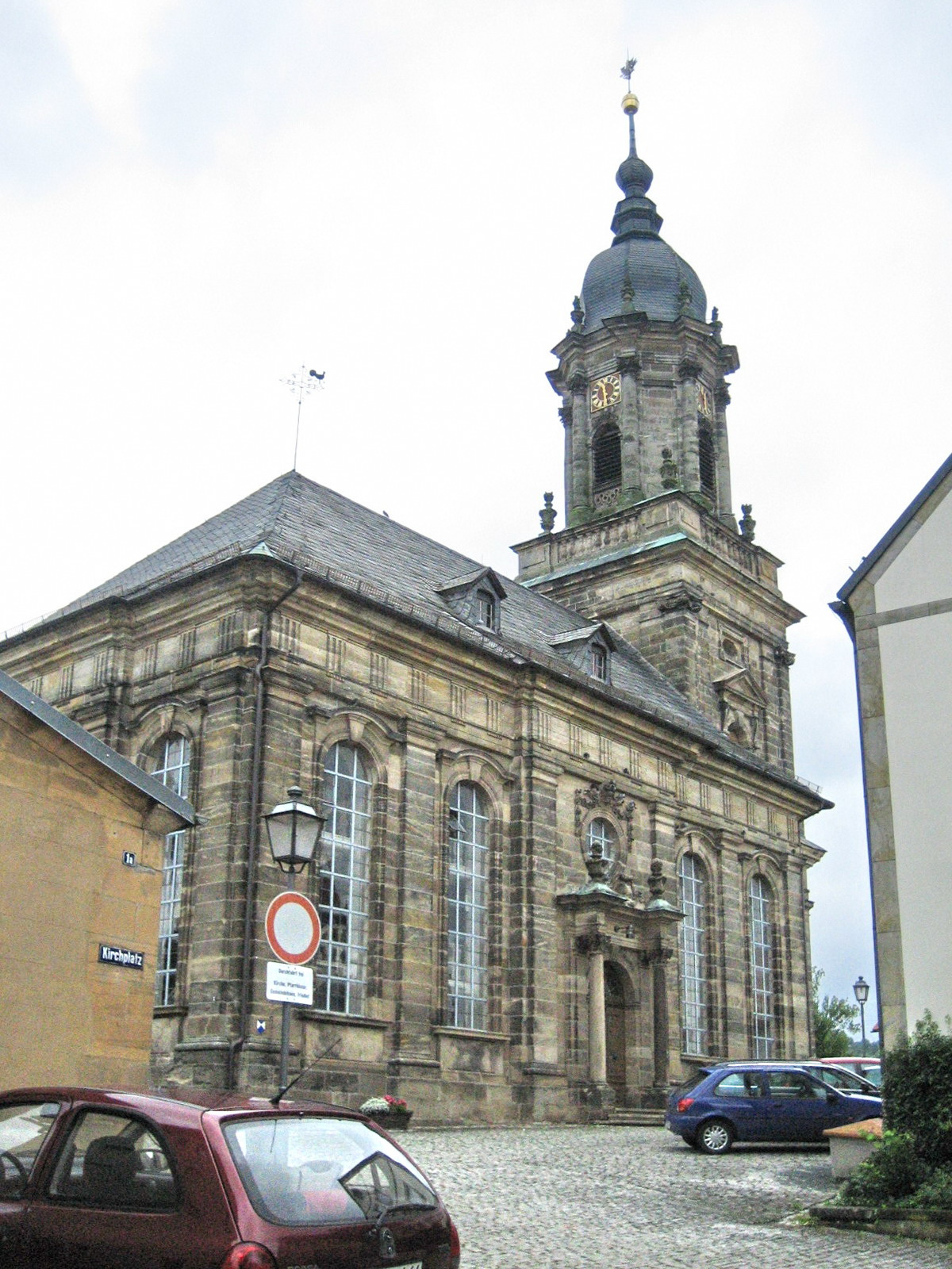 Bindlach's protestant 'St. Bartholomew' church